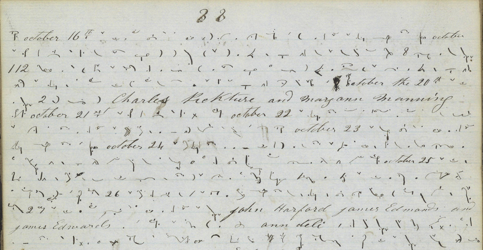 A selection of George Halliday's journal written in Pitman shorthand. Monday, October 16th.--I went and seen some of the Saints who was ill and laid hands on them and at night I attended Council meeting. Tuesday, October 17th.--I stayed at home all day for my clothes was so bad that I was ashamed to go out for I have been in Bristol 8 months and have baptized 112 persons. And in all that time I never had a new thing and my clothes is now so shabby and mean that I am ashamed to go out. However, I attended to the sick when they sent for me but I did not go out much besides. Friday, October 20th.--I went and baptized two whose names were Charles Pickton and Maryaun Manning. Saturday, October 21st,--I stayed at home all day. Sunday, October 22nd,--I attended meeting in the morning and in the afternoon I led the meeting and at night preached to a good house full of people. Monday, October 23rd,--I visited some of the Saints and at night attended Council meeting. Tuesday, October 24th,--I preached, attended meeting and a good one it was and after meeting I told the Saints to stay for a few moments and we proposed how to get our rent paid for the future as we had some difficulty in making up the rent. See more of the transcription here